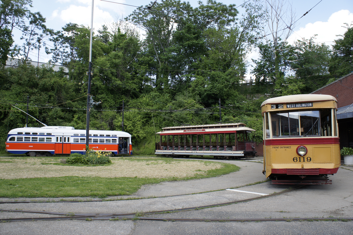 Streetcars in operation at Baltimore Streetcar Museum.